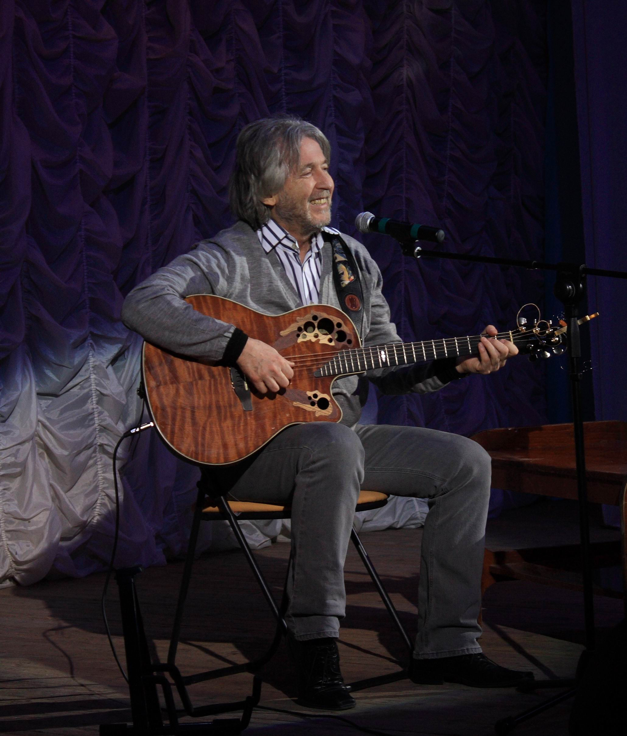 Vyacheslav Efimovich Malezhik